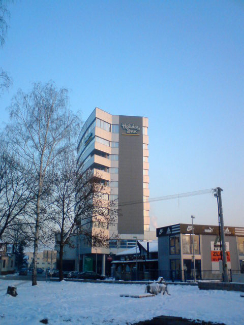 Hotel Holiday Inn (Žilina/Slovakia)